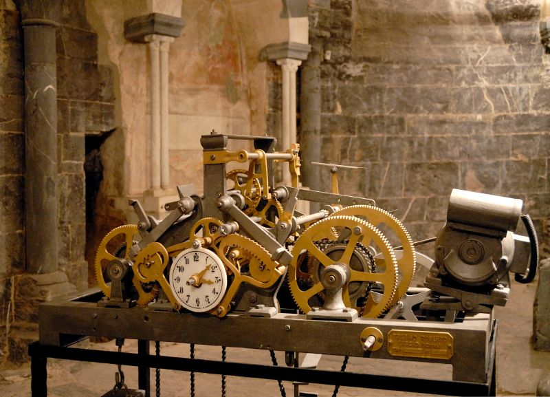 An old clock for bell tower of the famous company Roberto Trebino - Uscio (GE) - Italy